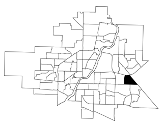 A map showing the location of the College Park East neighbourhood in relation to the other neighbourhoods in Saskatoon, Saskatchewan, Canada.